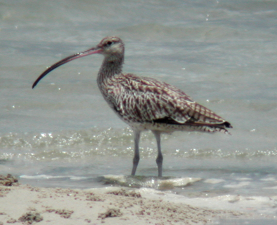 Eastern Curlew (Numenius madagascariensis) Inskip Pt, SE Queensland, Australia